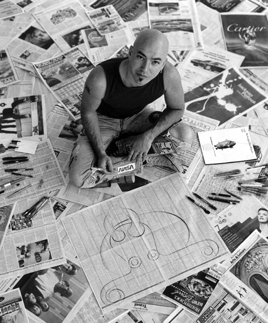 Artist Lennie Mace, pictured with "Lady Killer/Bull Market" work-in-progress (ballpoint pen on newspaper, "Media Graffiti Series"). Publicity photo for his "365DAZE" Project, whereby the artist spent the year of 1998 driving around America doing a drawing-per-day. The artist's patched driving-jeans, mis-matched sneakers and various ballpoint pens are also visible. Photographed by James Galloway at Studio With a View, New York City (W. 31st St.), October 25, 1998. Copyright James Galloway 1998.